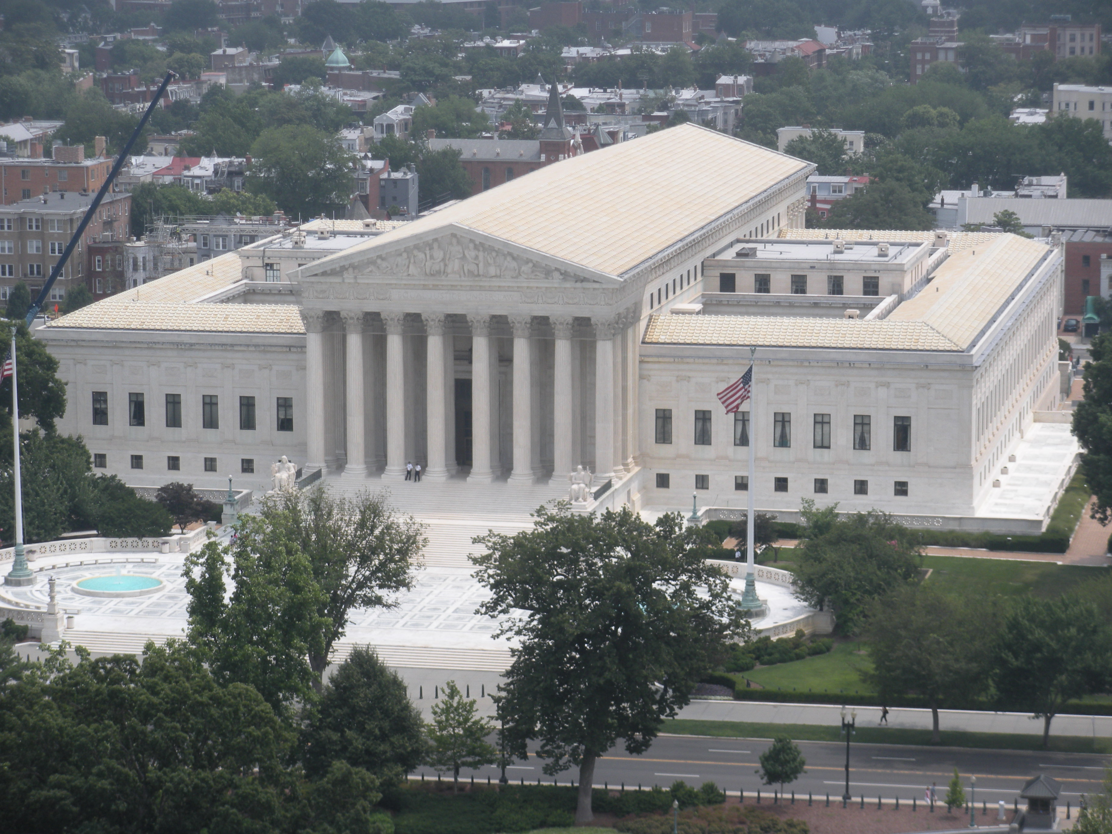 Taken from the Visitor's Viewing area at the top of the United States Capitol Building.